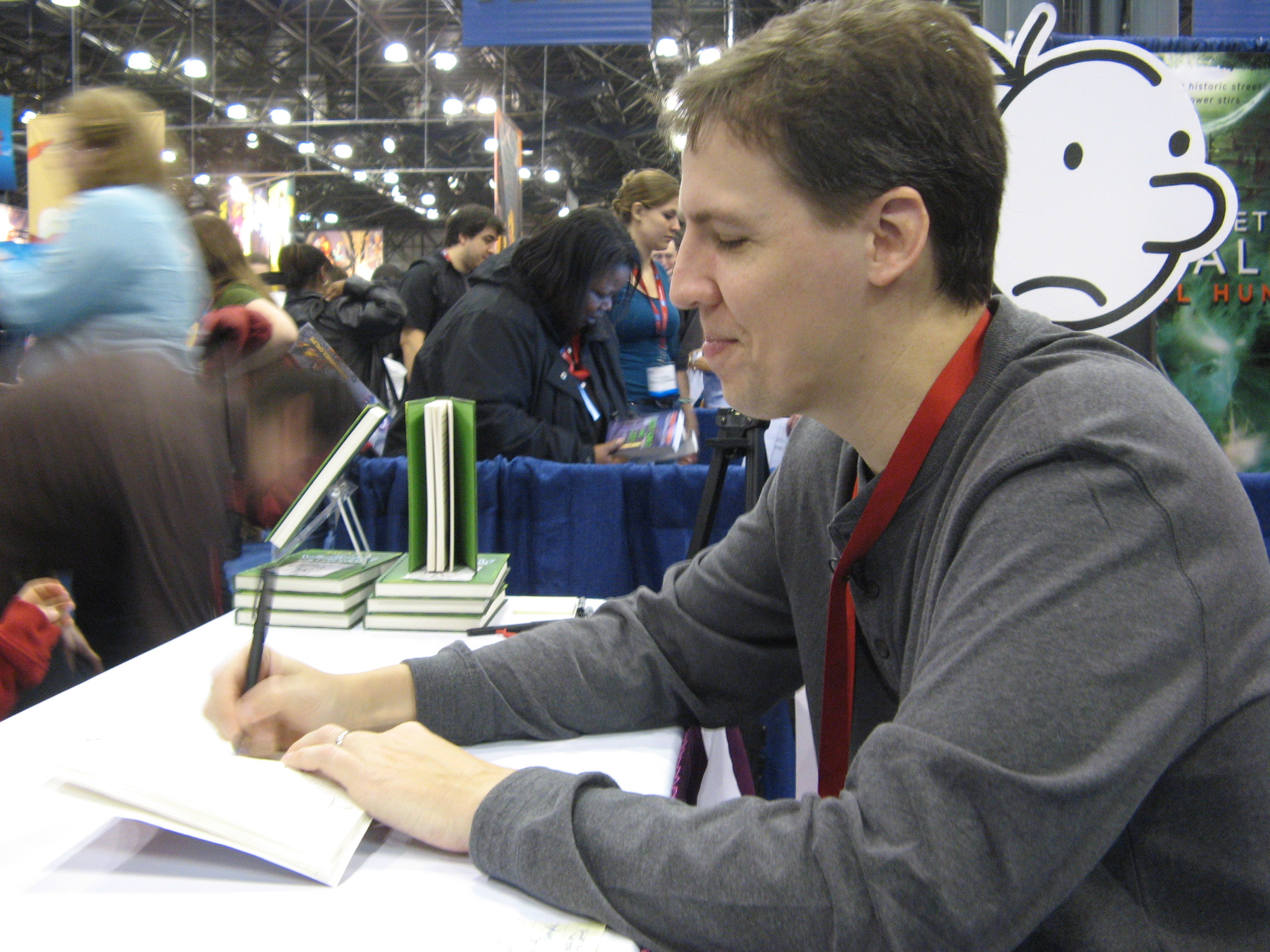 Jeff Kinney signs copies of "Diary Of A Wimpy Kid" during a personal appearance at the booth of publisher Harry Abrams during the 2009 New York Comic Con